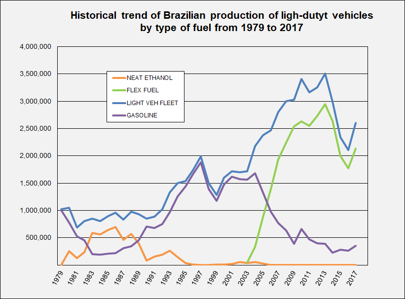 Graph showing historical series of gasoline, neat ethanol, and flexible fuel vehicles production in Brazil, series 1979-2017. Data series taken from the Associação Nacional dos Fabricantes de Veículos Automotores (Brazilian National Association of Carmakers), available at [1]. Graph built with Excel and converted to PNG with Photoshop Elements